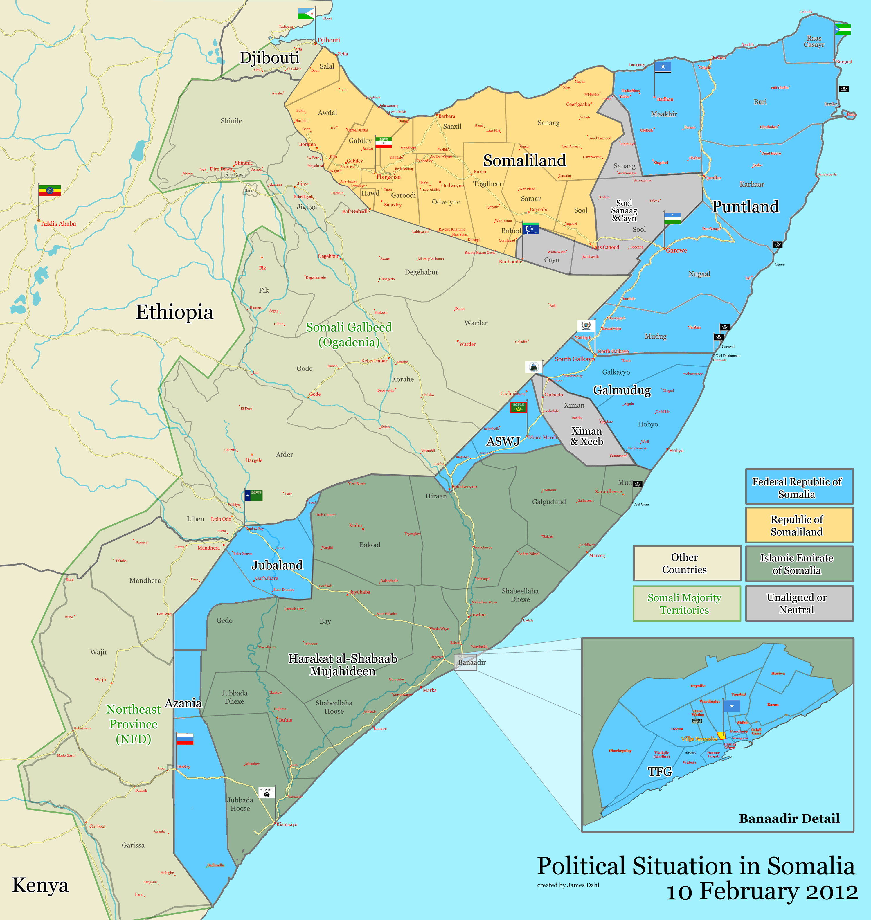 10 February 2012